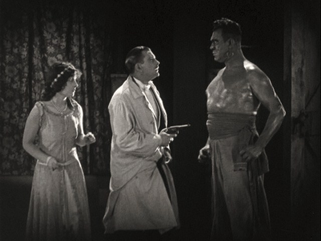 Left to right: Gertrude Olmstead, Hallam Cooley, and Walter James in The Monster - cropped screenshot